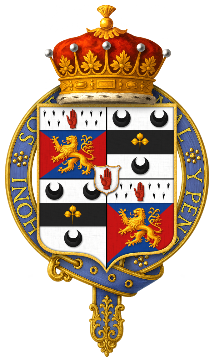 Coat of Arms of Rupert Guinness, 2nd Earl of Iveagh, KG, CB, CMG, VD, ADC, FRS, DL